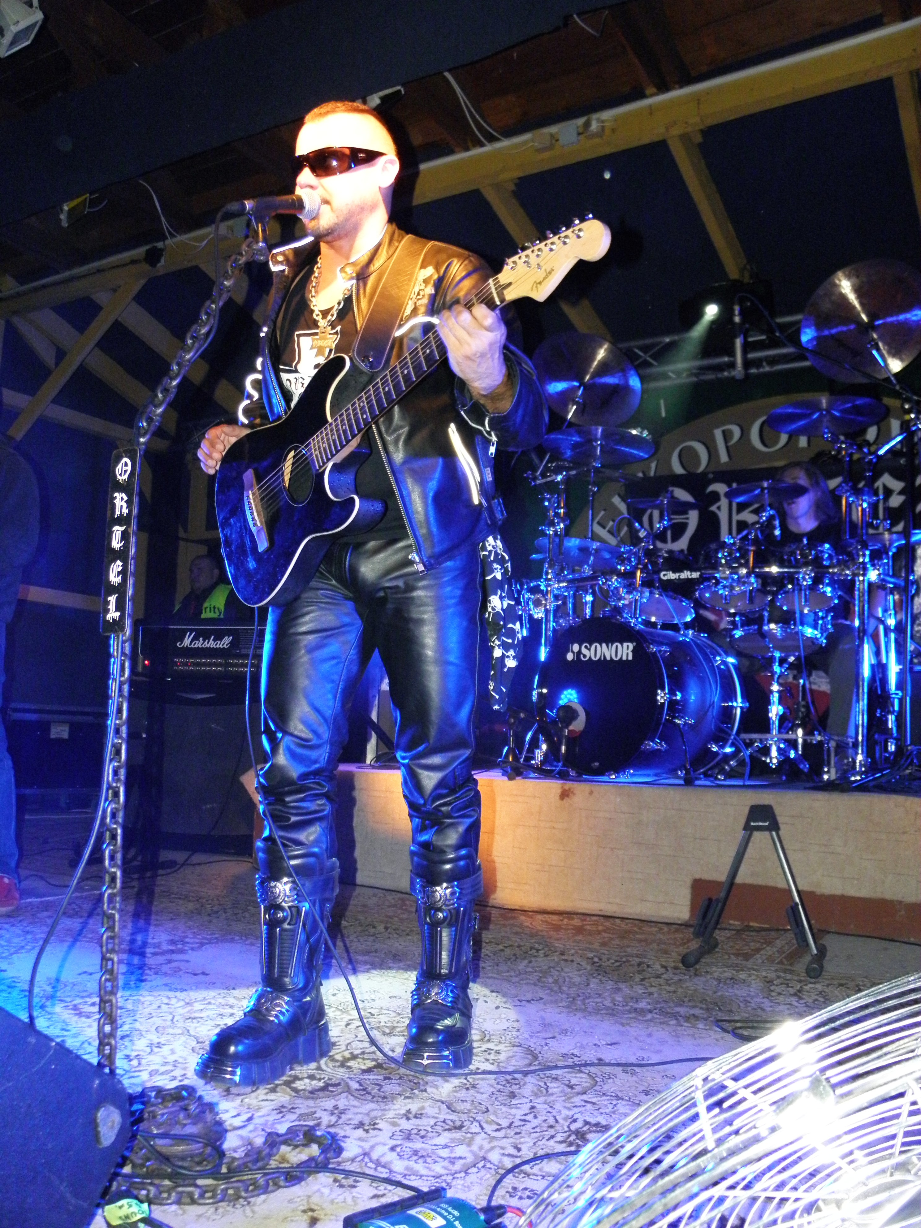 Czech music group Ortel, concert in Runway Club near Hradec Kralove.